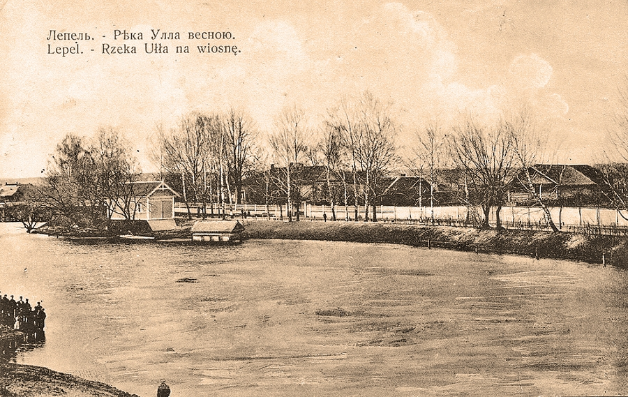 Lepiel, Uła River